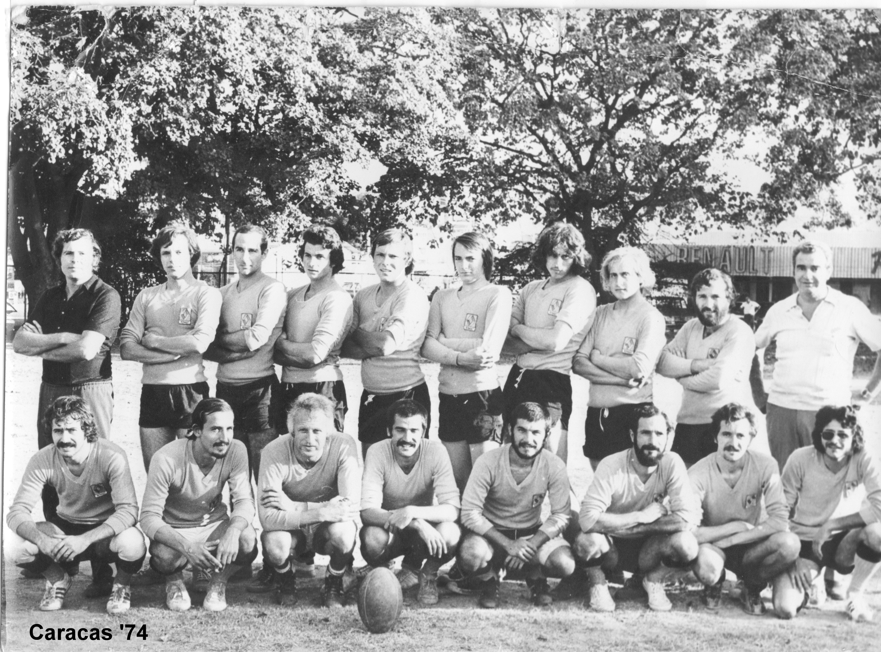 This is a picture of one of the two first rugby teams in Caracas.